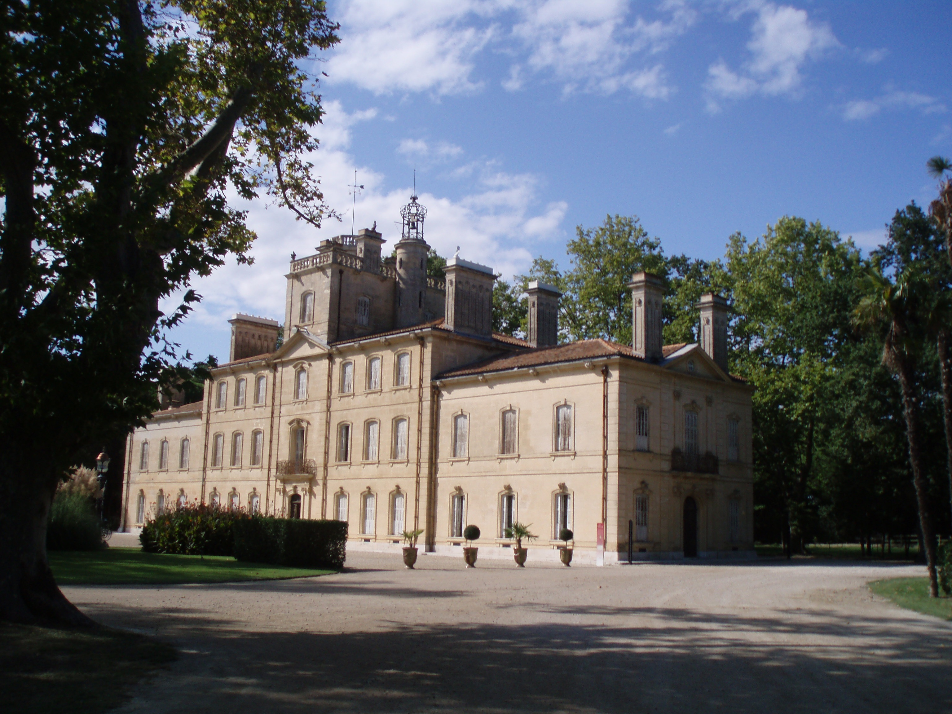 Castle of Avignon Camargue